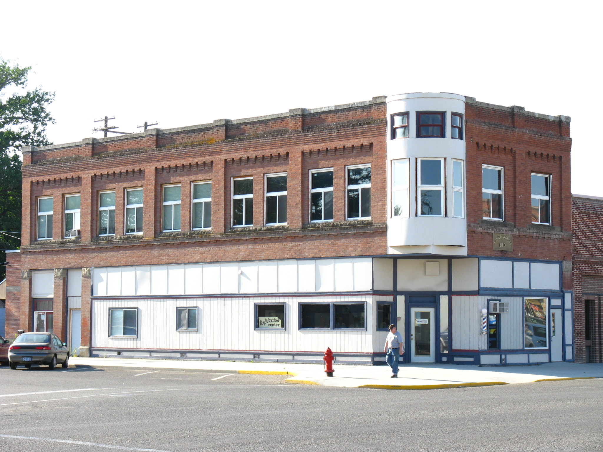 Jacobsen Building, Payette, Idaho. This building is listed on the National Register of Historic Places.